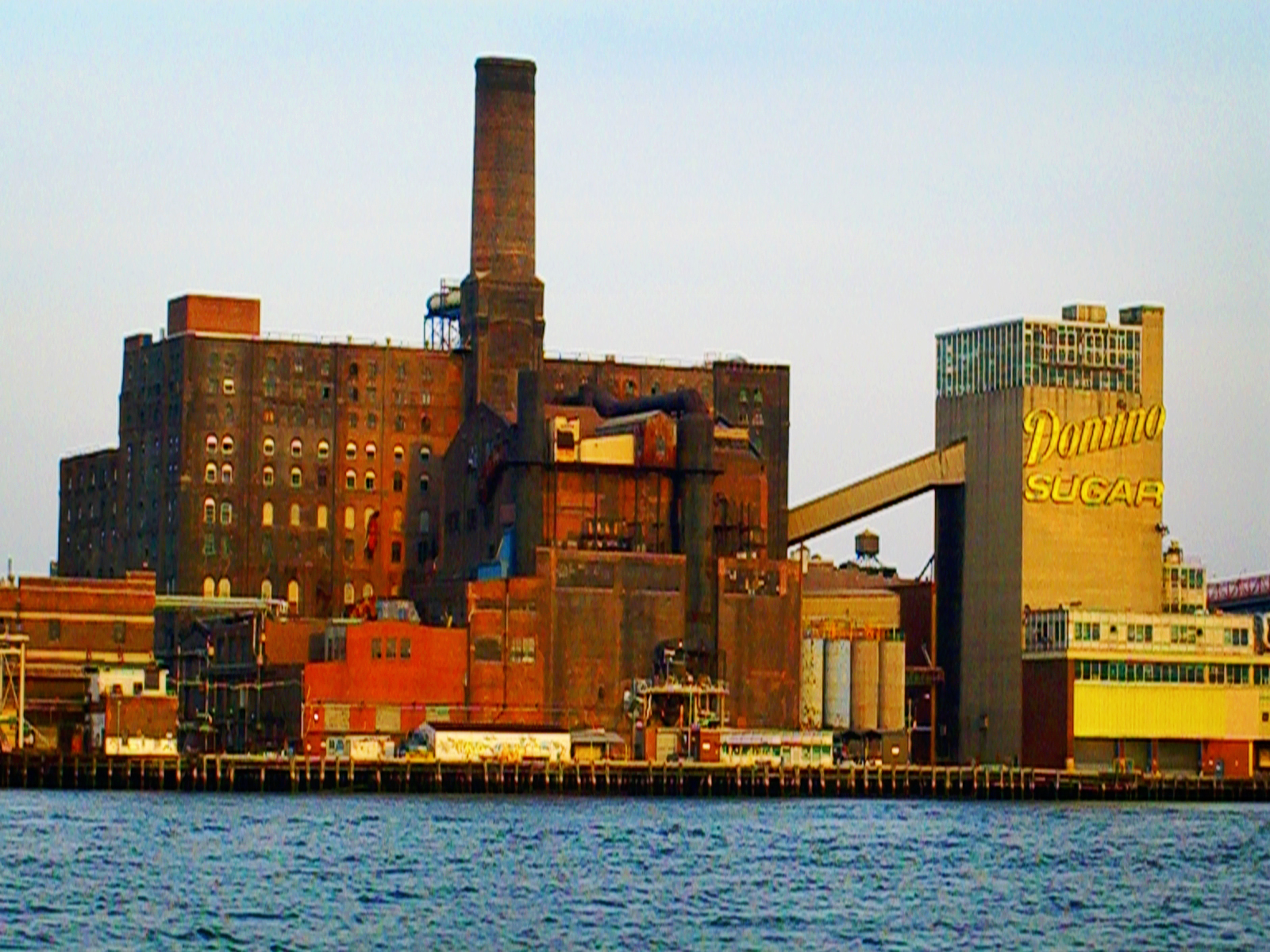 Domino Sugar Refinery in Williamsburg